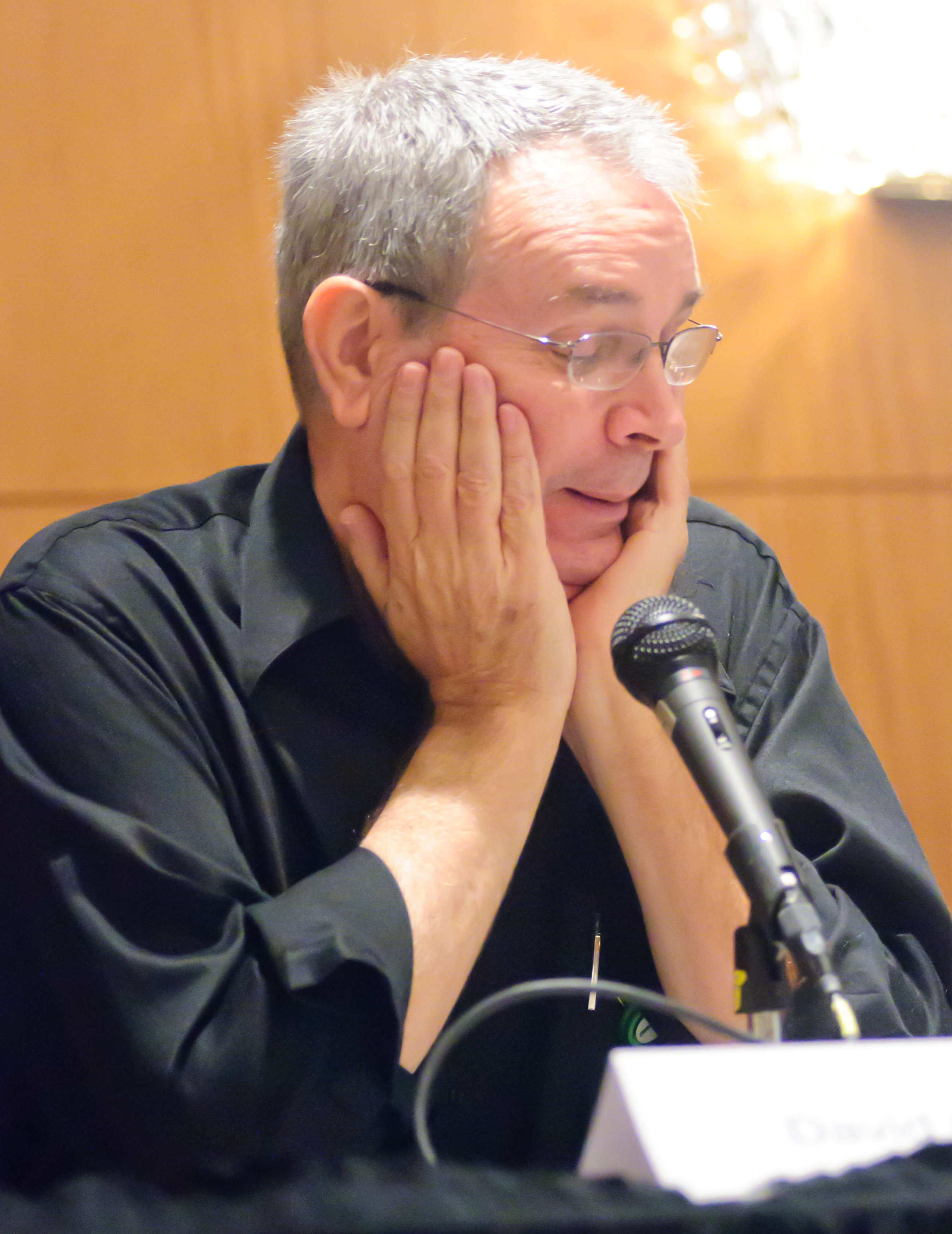 DragonCon2010-Sword_and_Laser-9